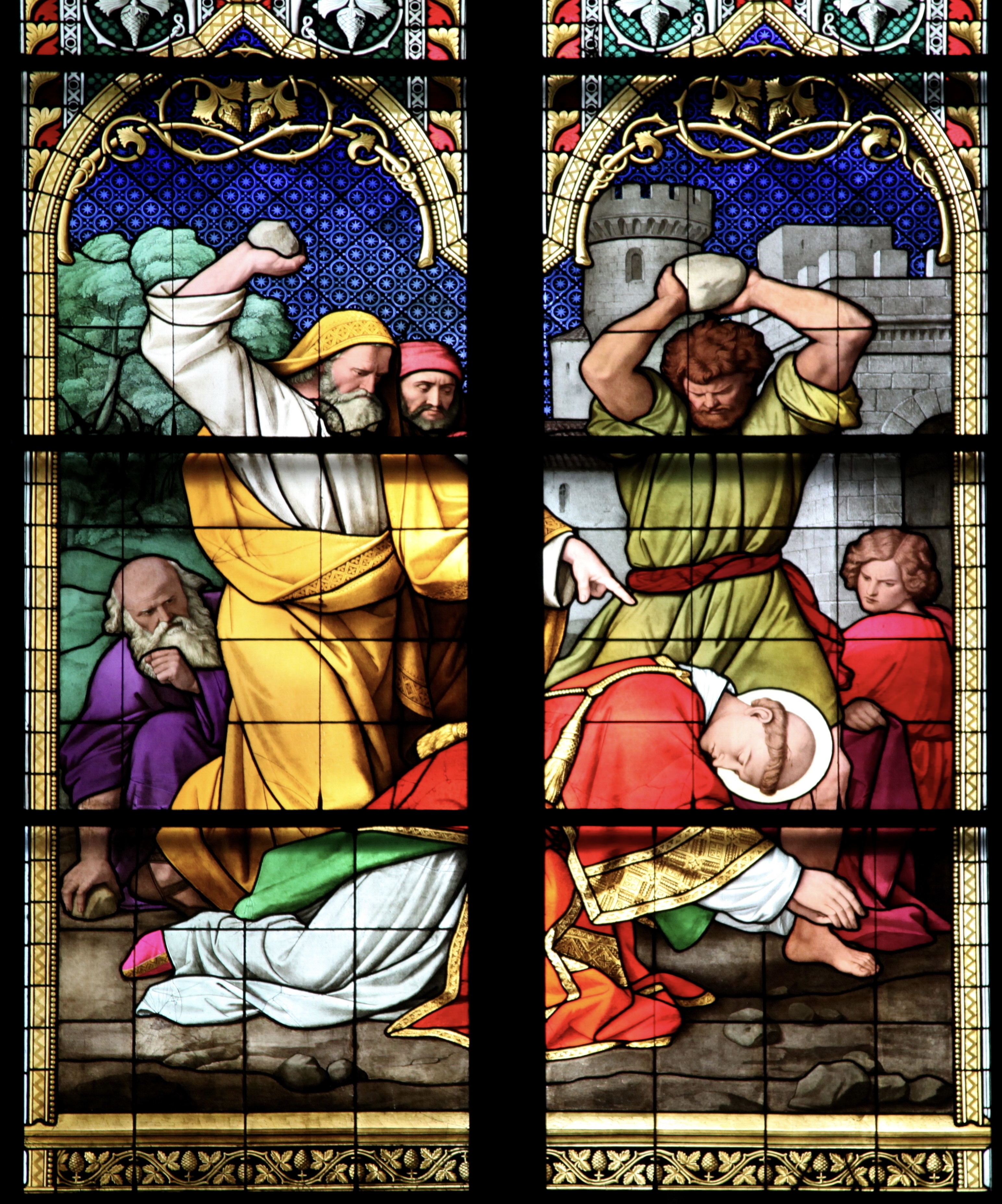 Stained glass window of the Cologne Cathedral